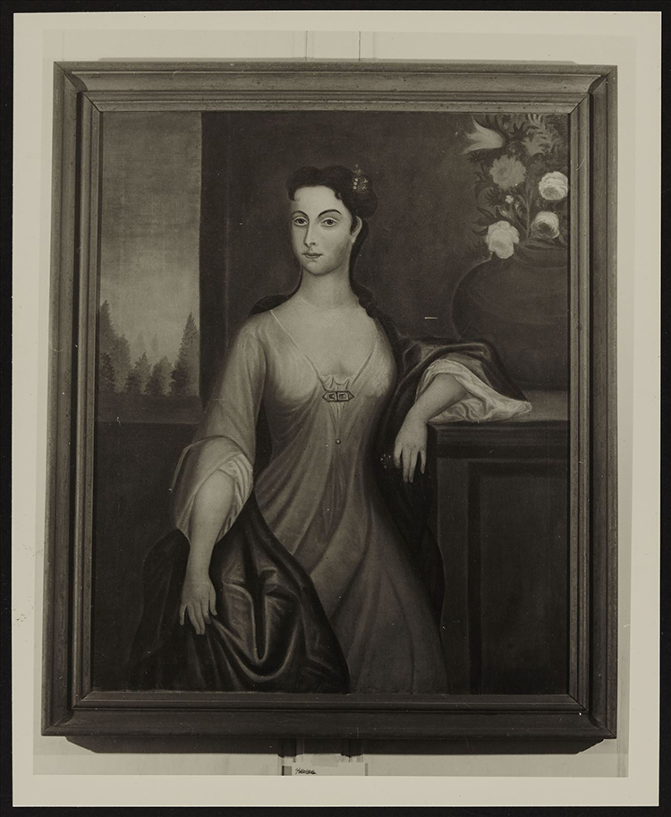 Dimensions: 46 1/2 x 37 1/2 in. (118.11 x 95.25 cm.)